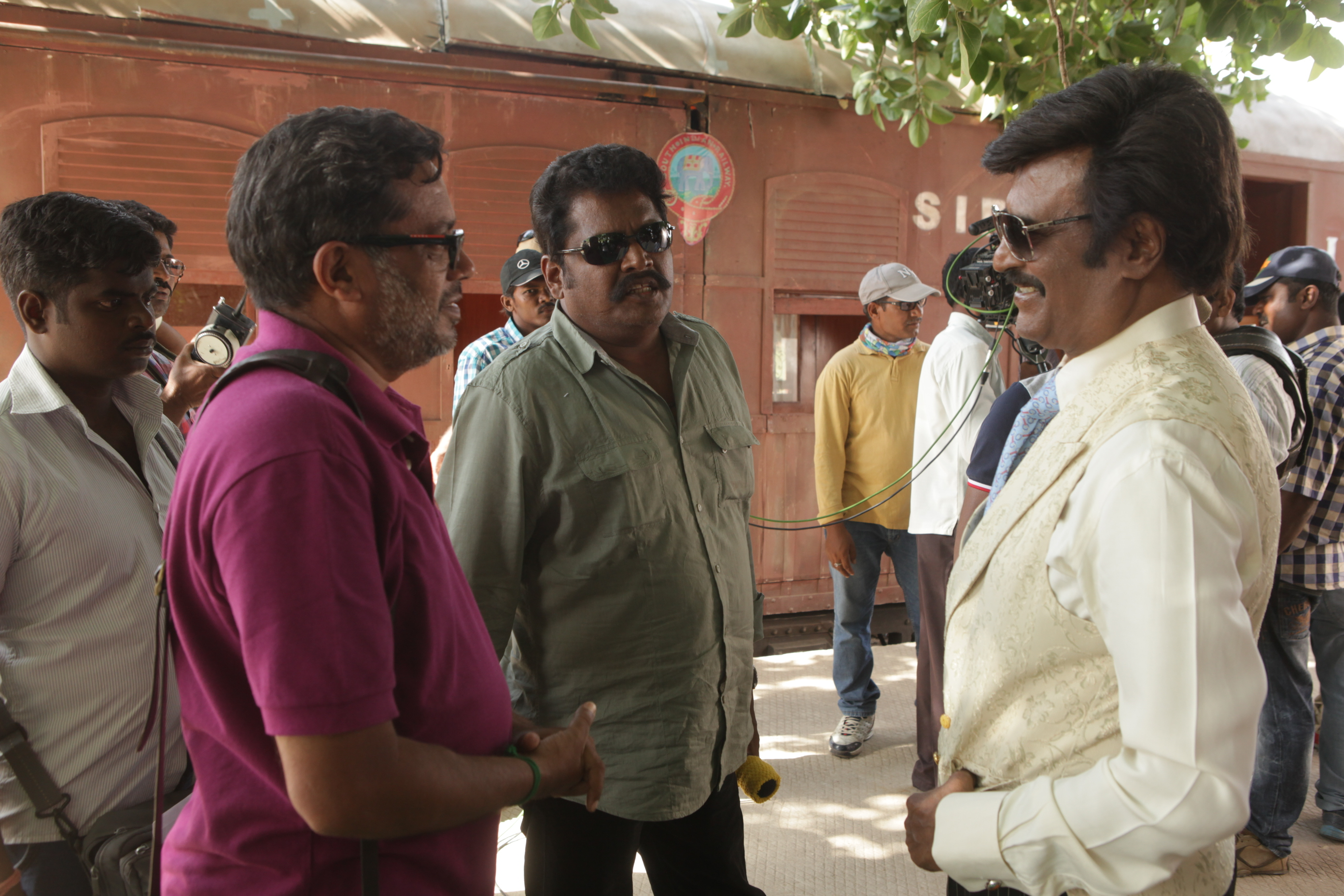 Art Director M.Prabakaran with Mr. Rajnikanth at the shooting of a Tamil feature film 'Lingaa'